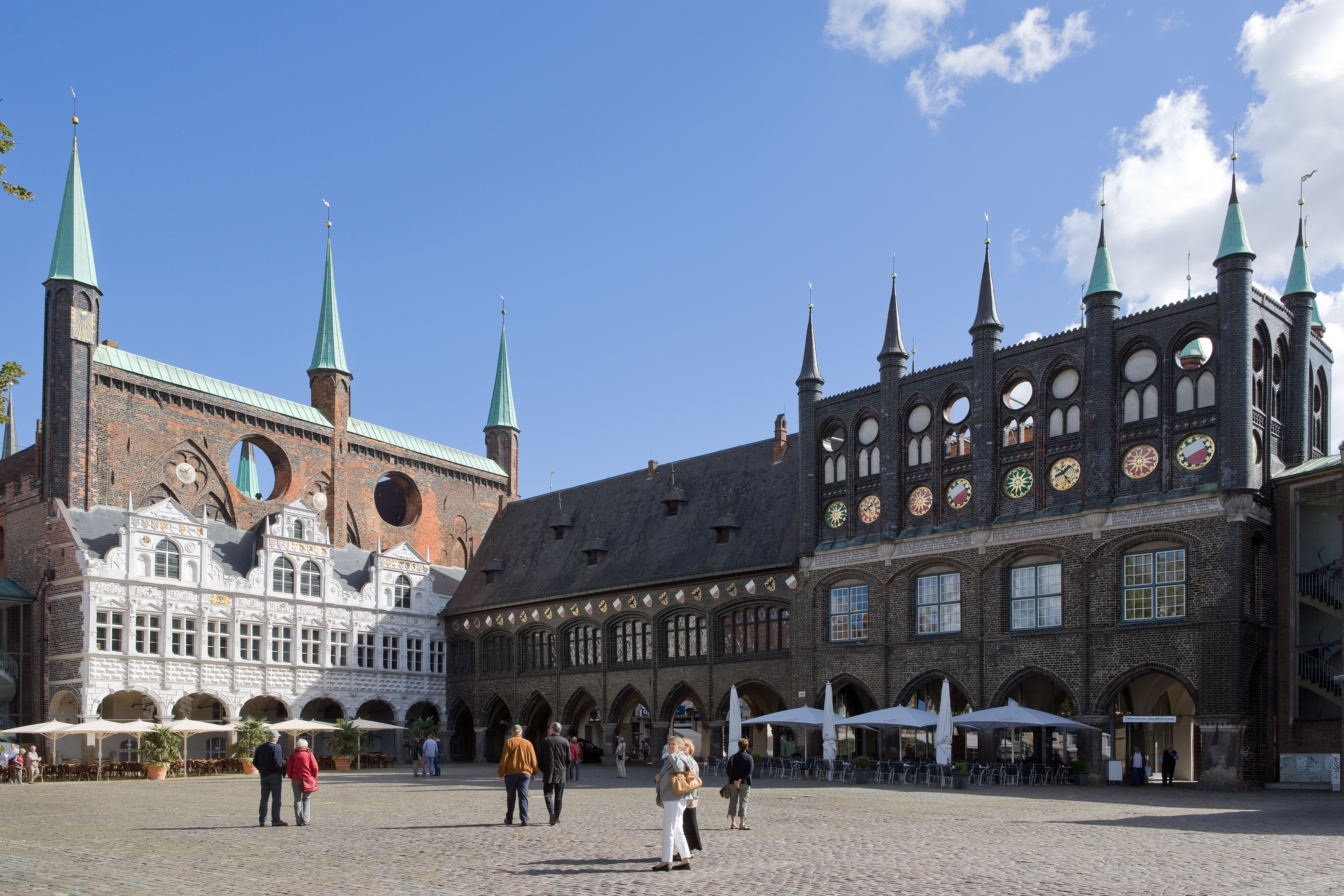 Lübeck: Town hall as seen from the southwest at the Markt (Market)